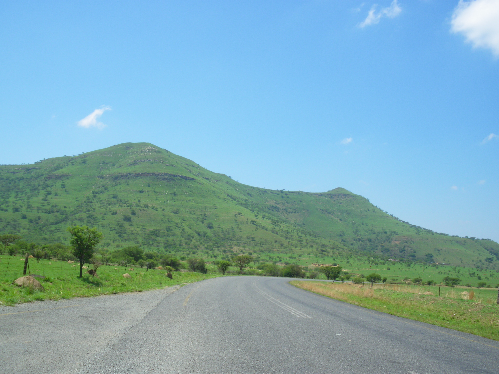 Spioenkop nowadays, Kwazulu-Natal, South Africa - seen from south (Road 600)